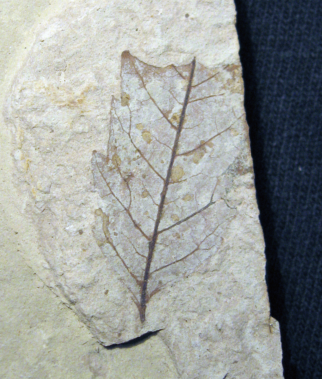 A 2.5cm tall Bohlenia americana missing the upper half of the leaf do to insect herbivory prior to fossilization. 49 million years old, Klondike Mountain Formation, Republic, Washington, USA. In private collection.